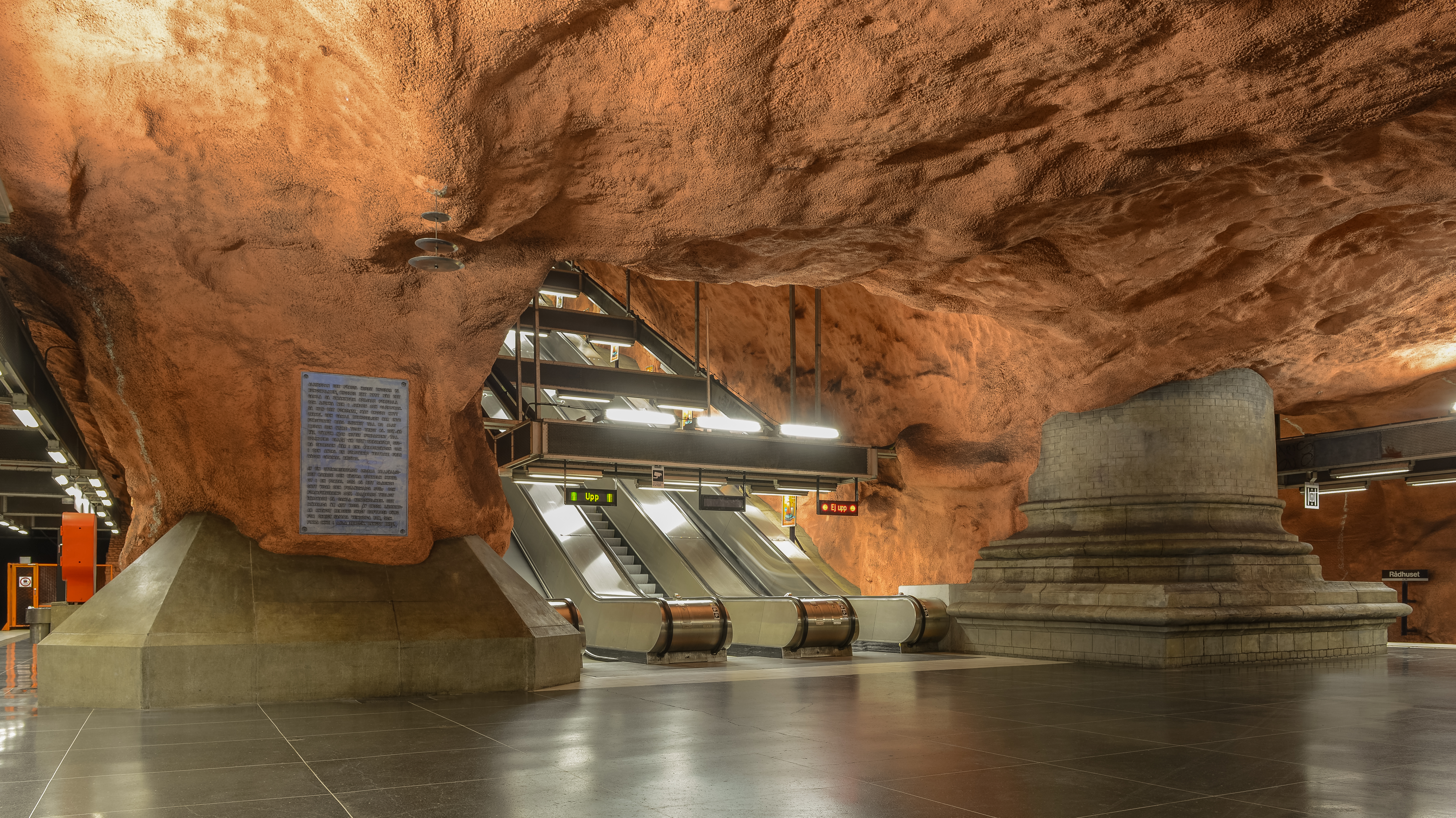 Rådhuset metro station, Stockholm. East entrance/exit.